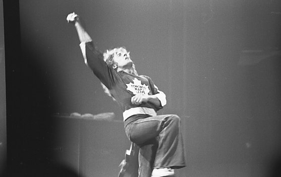 "A fighter, a helpless dancer" Maple Leaf Gardens, Toronto, October 10, 1976